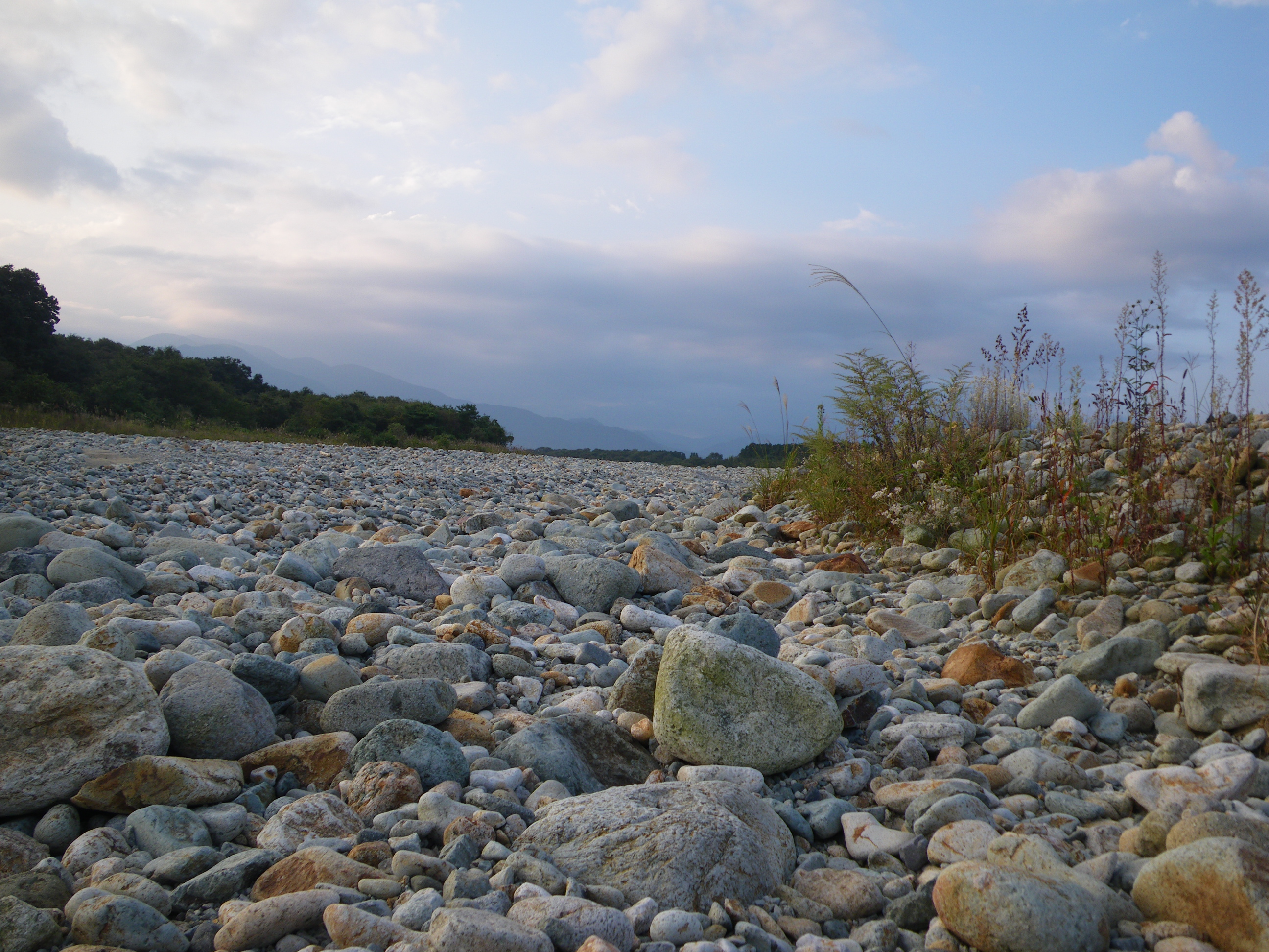 Sabigawa river, on Nasunogahara alluvial fan. Nasushiobara, Tochigi, Japan.